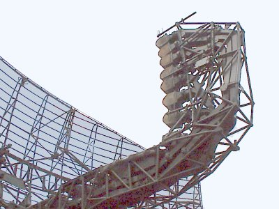 Elevation angle graduated (stacked-beam) feed horns on a German airport surveillance radar. These radiate microwaves which are focused by the radar dish to form a narrow vertical fan-shaped radar beam, which is scanned 360° around the horizon by the rotating antenna. The separate horns allow the elevation angle and thus the altitude of the plane to be determined.